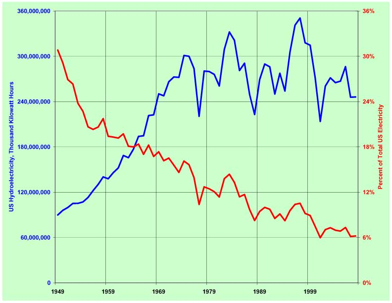 US Hydroelectric power generated by year 1995-2008, and hydropower as a percentage of all US electricity generated